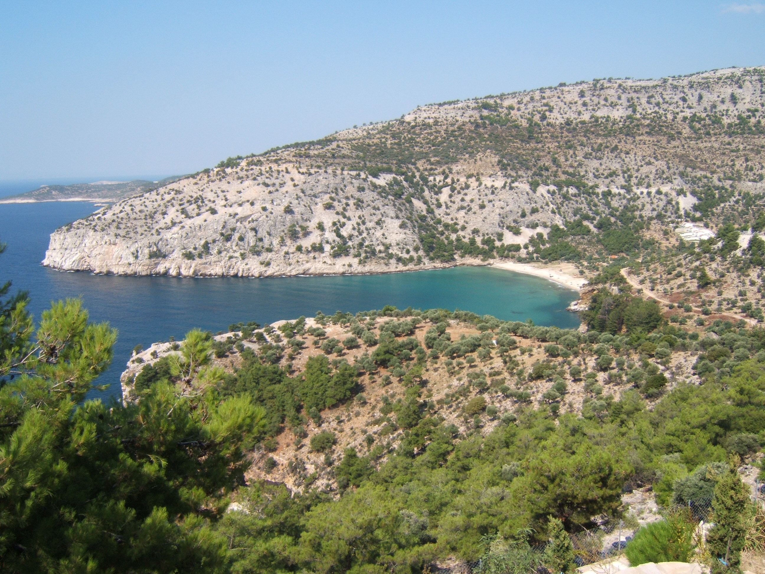 South coast of Tassos/Greeece